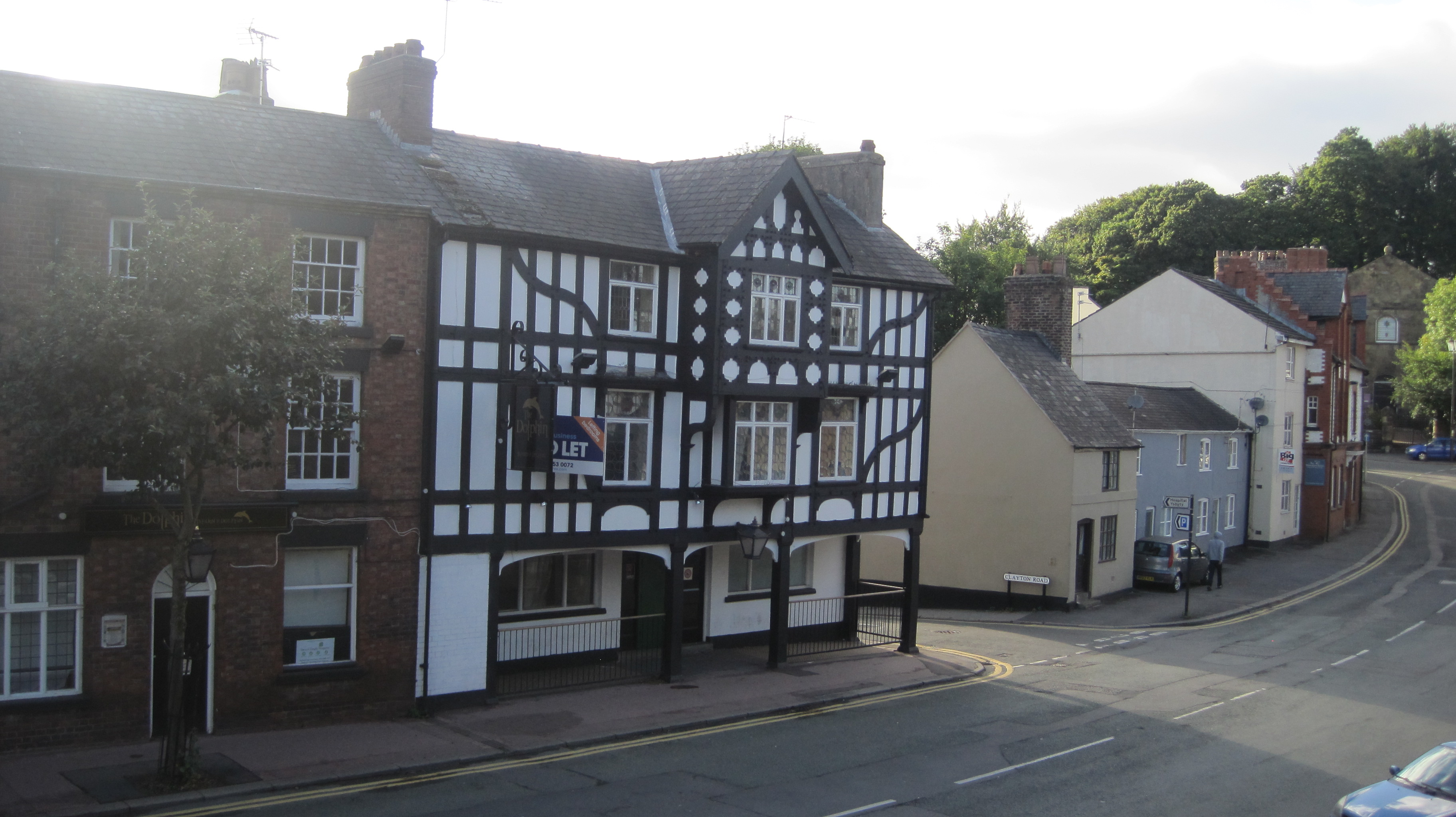 The Dolphin Inn, Off Clayton Road. Mold, Flintshire. Listed Building.